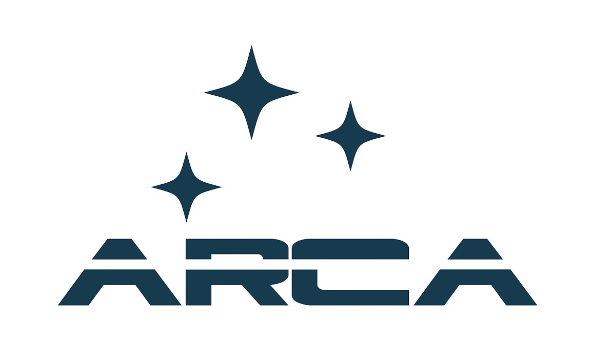 ARCA (NGO) logo